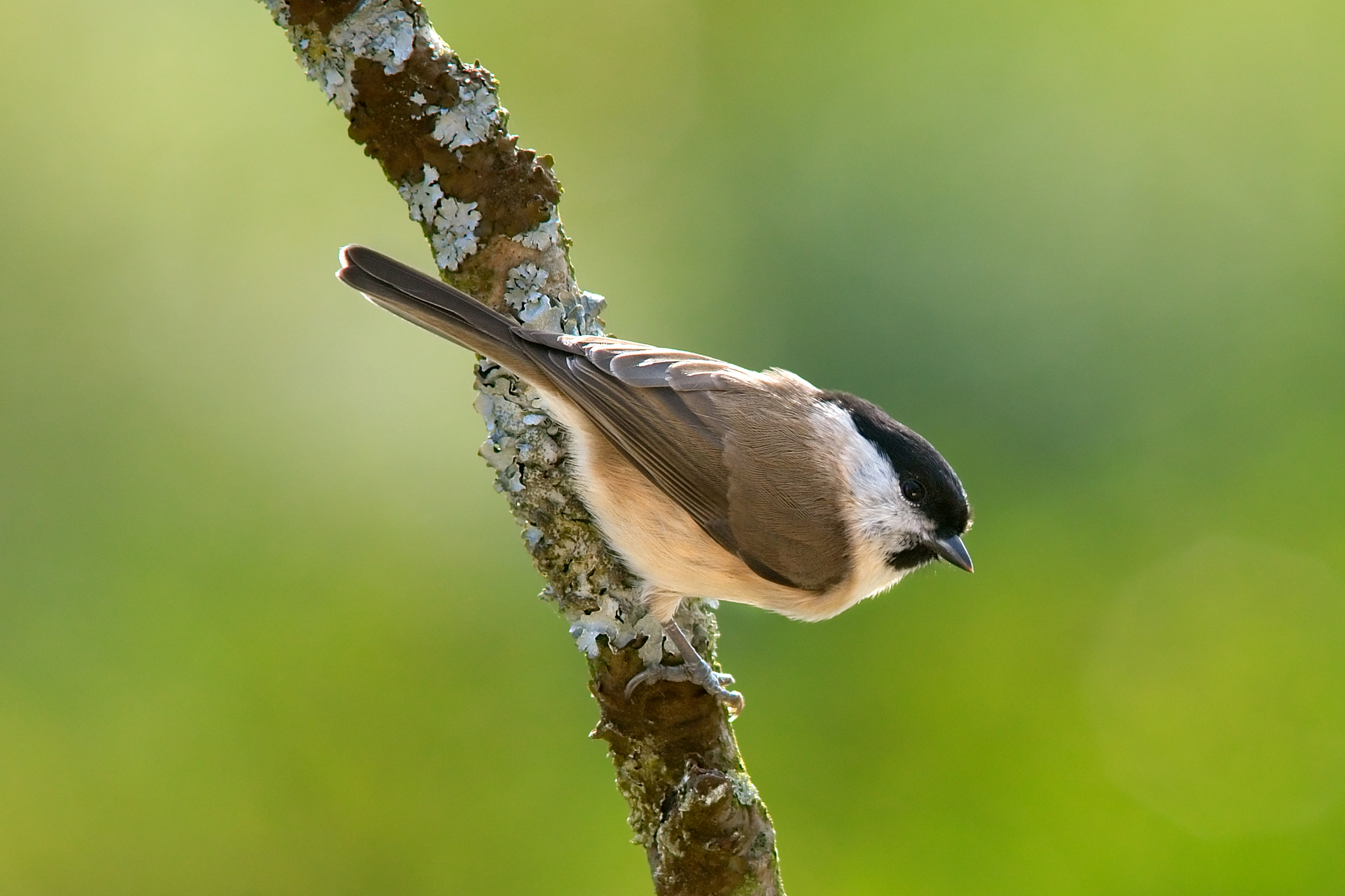 Marsh Tit Poecile palustris